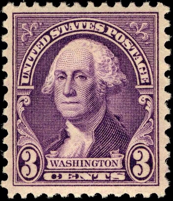 Image of George Washington U.S. Postage stamp, definitive issue of 1932